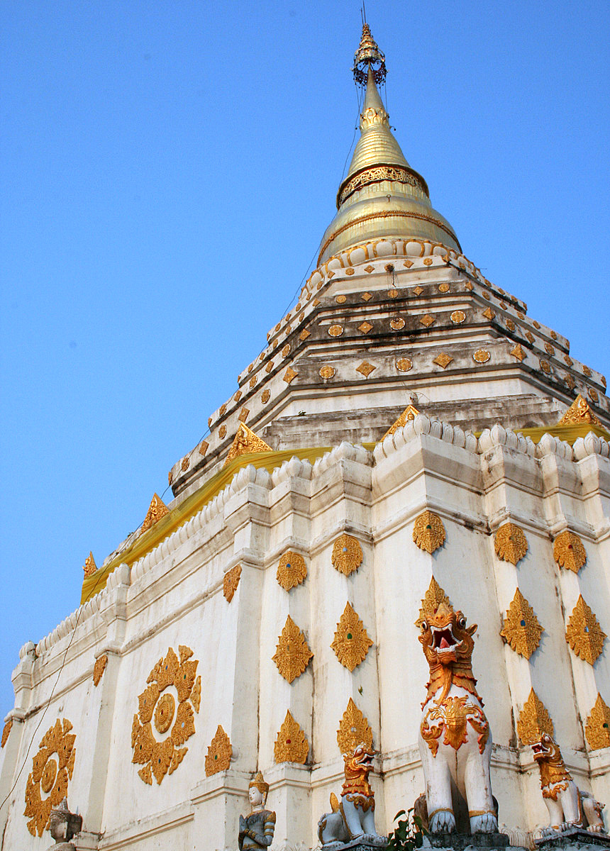 The white chedi dominates the buddhist temple Wat Chiang Yuen in Chiang Mai, Thailand.